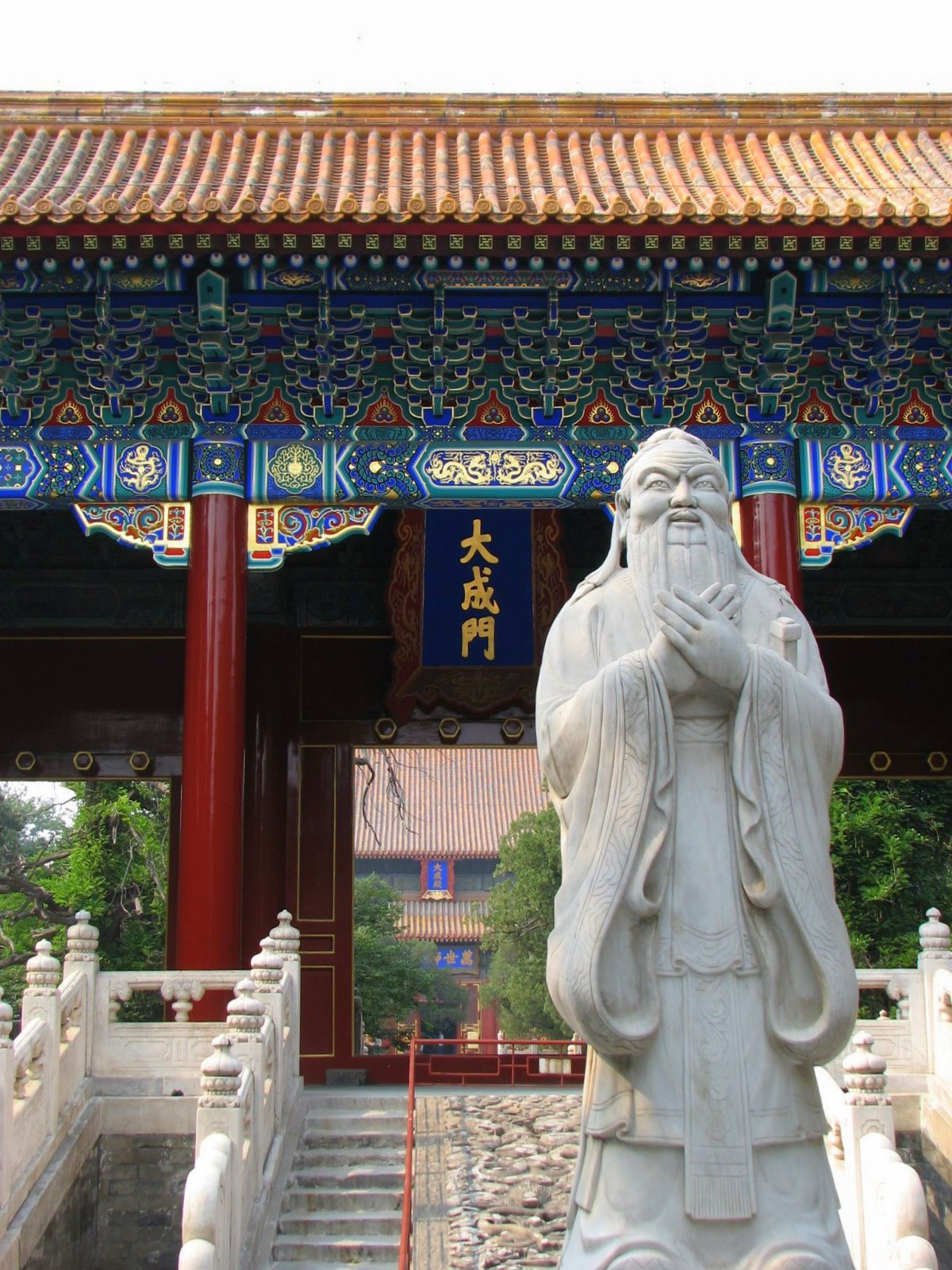 Statue of Confucius outside of Beijing's Temple of Confucius.